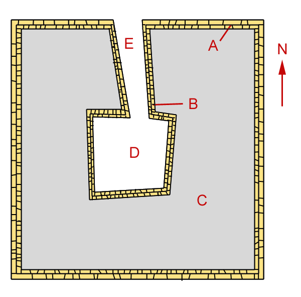 Plan of the Superstructure of the pyramid of Raneferef